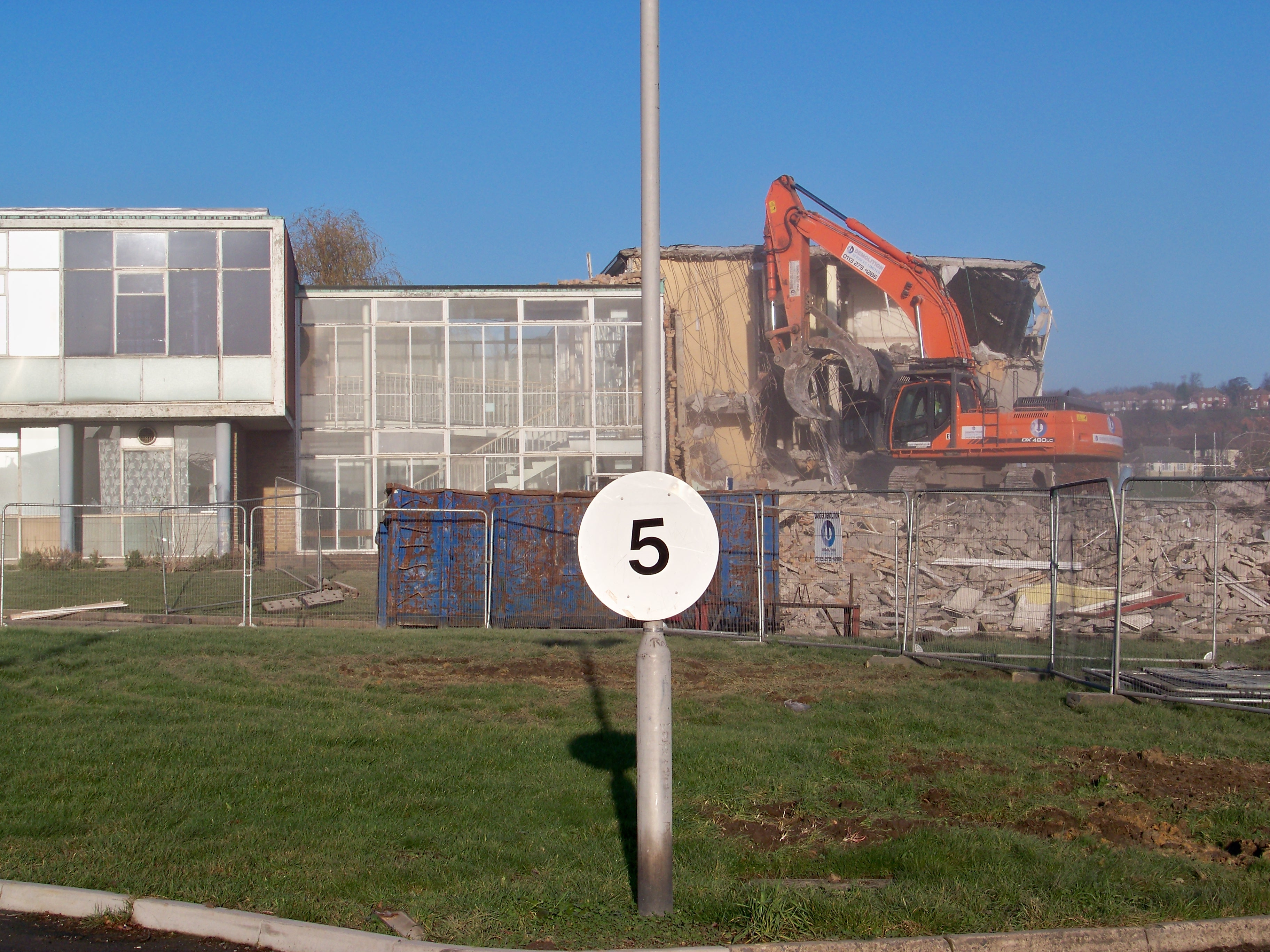 The demolition of the East Leeds Family Learning Centre (formerly Foxwood School) in Seacroft, Leeds. Taken during the early stages of demolition, around midday on Saturday the 12th of December 2009. Note the large glazed stairwells which were used extensively by Yorkshire Television for filming scenes in the Beiderbecke Trilogy.